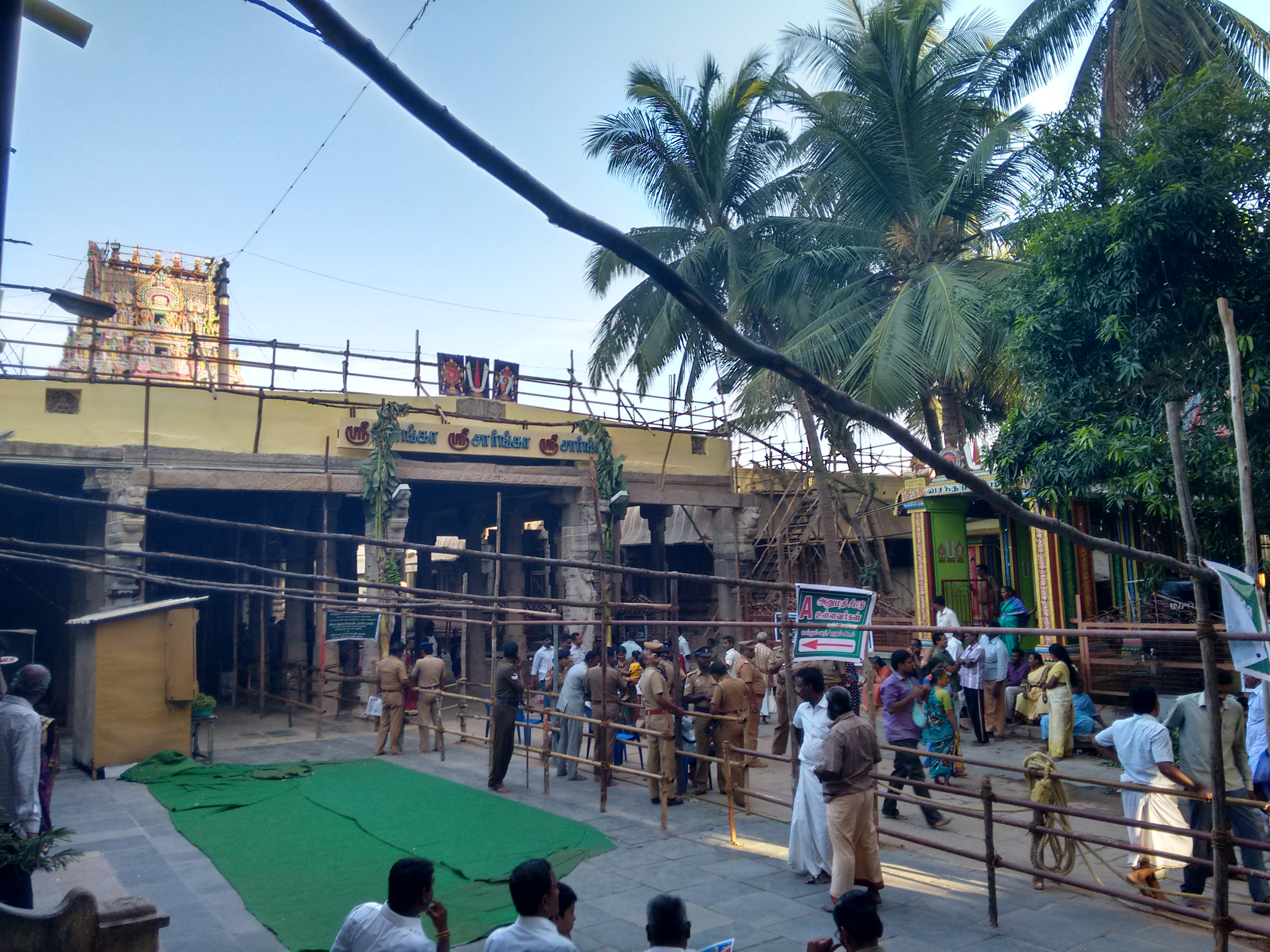 Sarangapani temple kumbabisegam13july2015 சார்ங்கபாணி கோயில் கும்பாபிஷேகம்13சூலை 2015